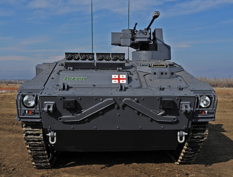 Infantry Fighting Vehicle Lazika - STC Delta (front view)